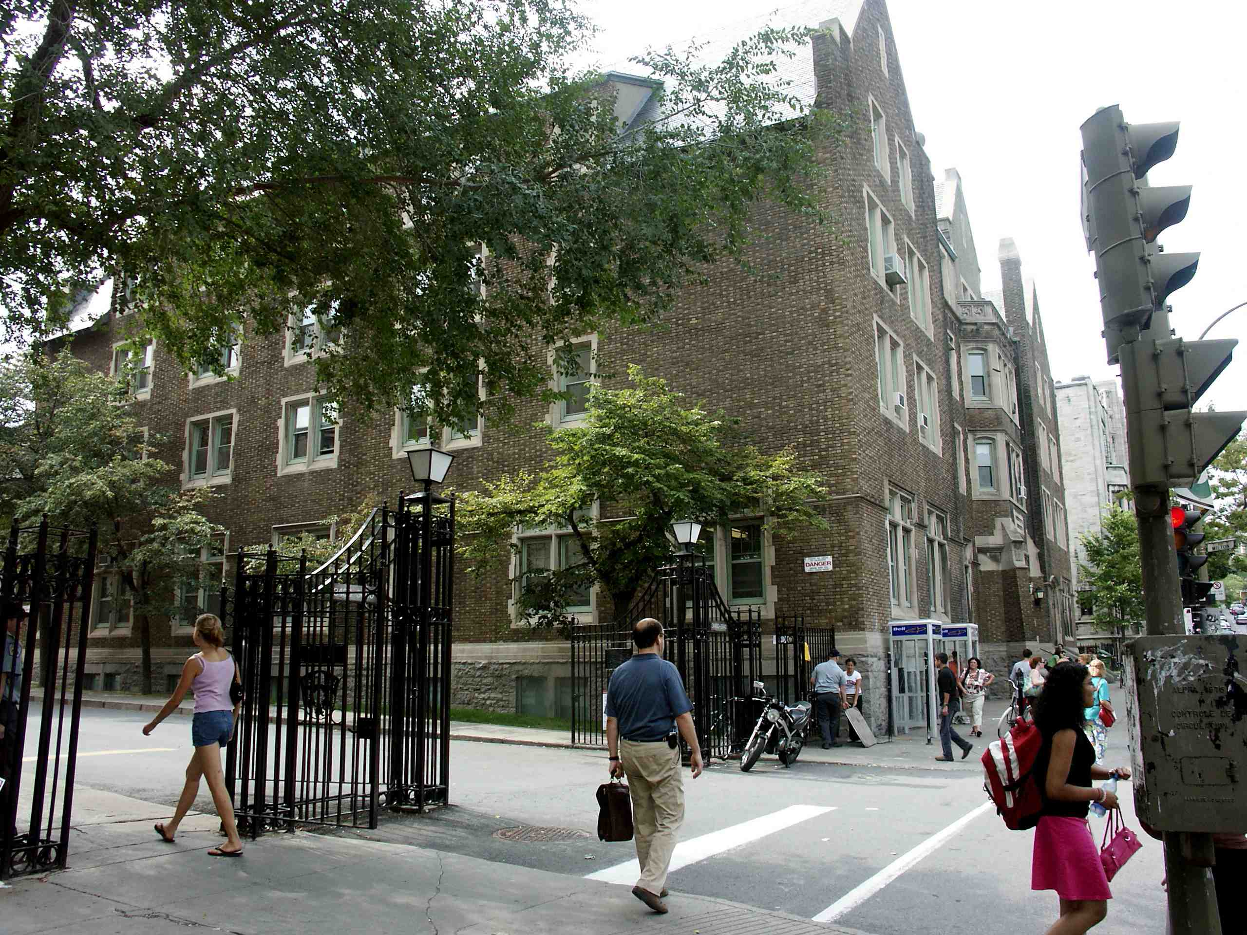 Milton Gates of McGill University, Montreal. Photo by: User:Gene.arboit